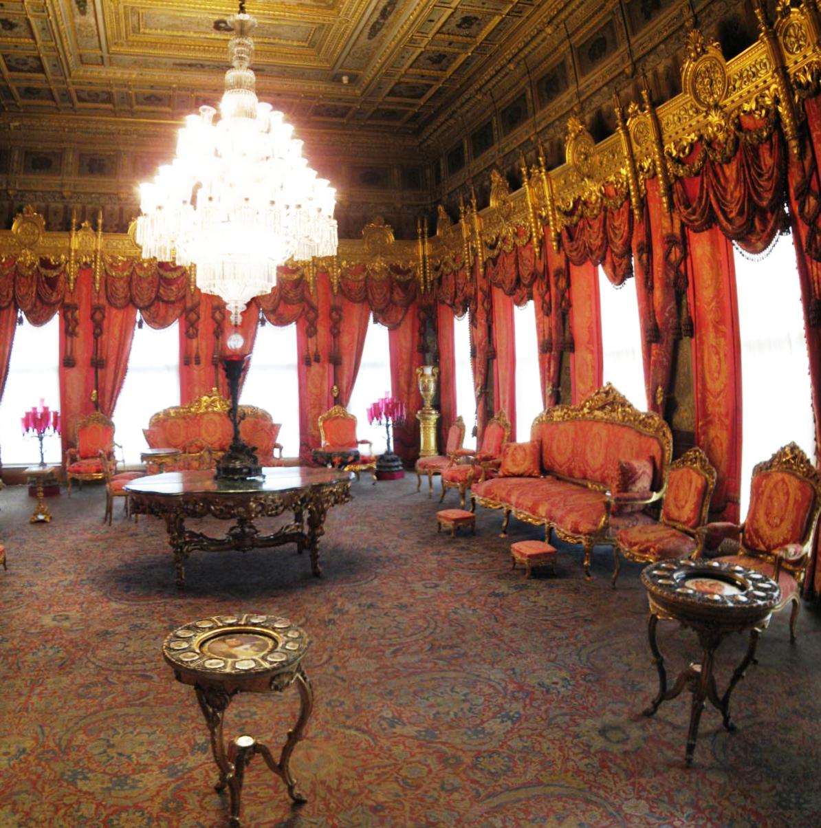 The (Ottoman: Süfera Salonu) (Turkish: Elçi Kabul Odası), where the sultan received ambassadors. The room is in the Selamlık. (#9 of the tour).